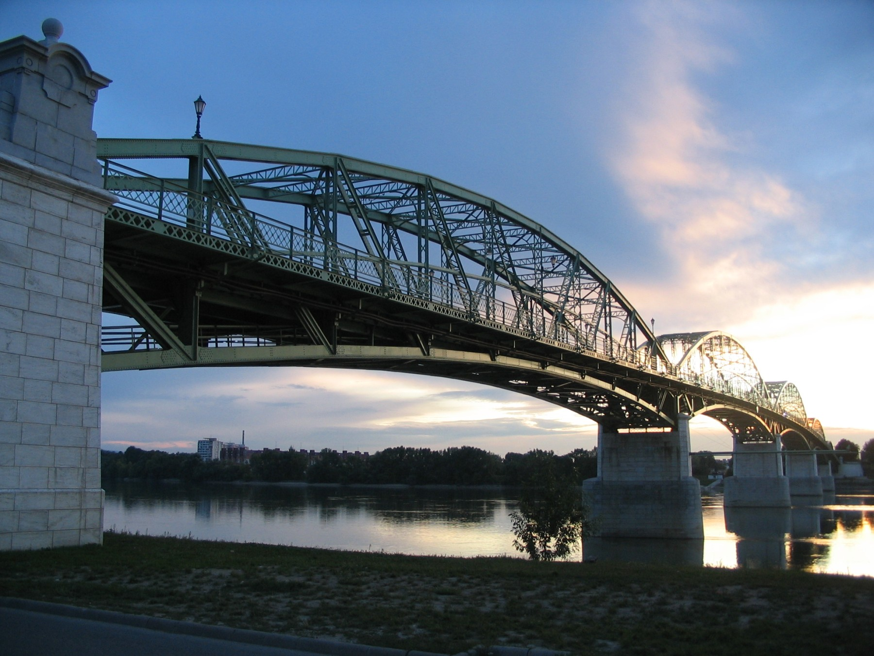 Maria Valeria Bridge, Esztergom